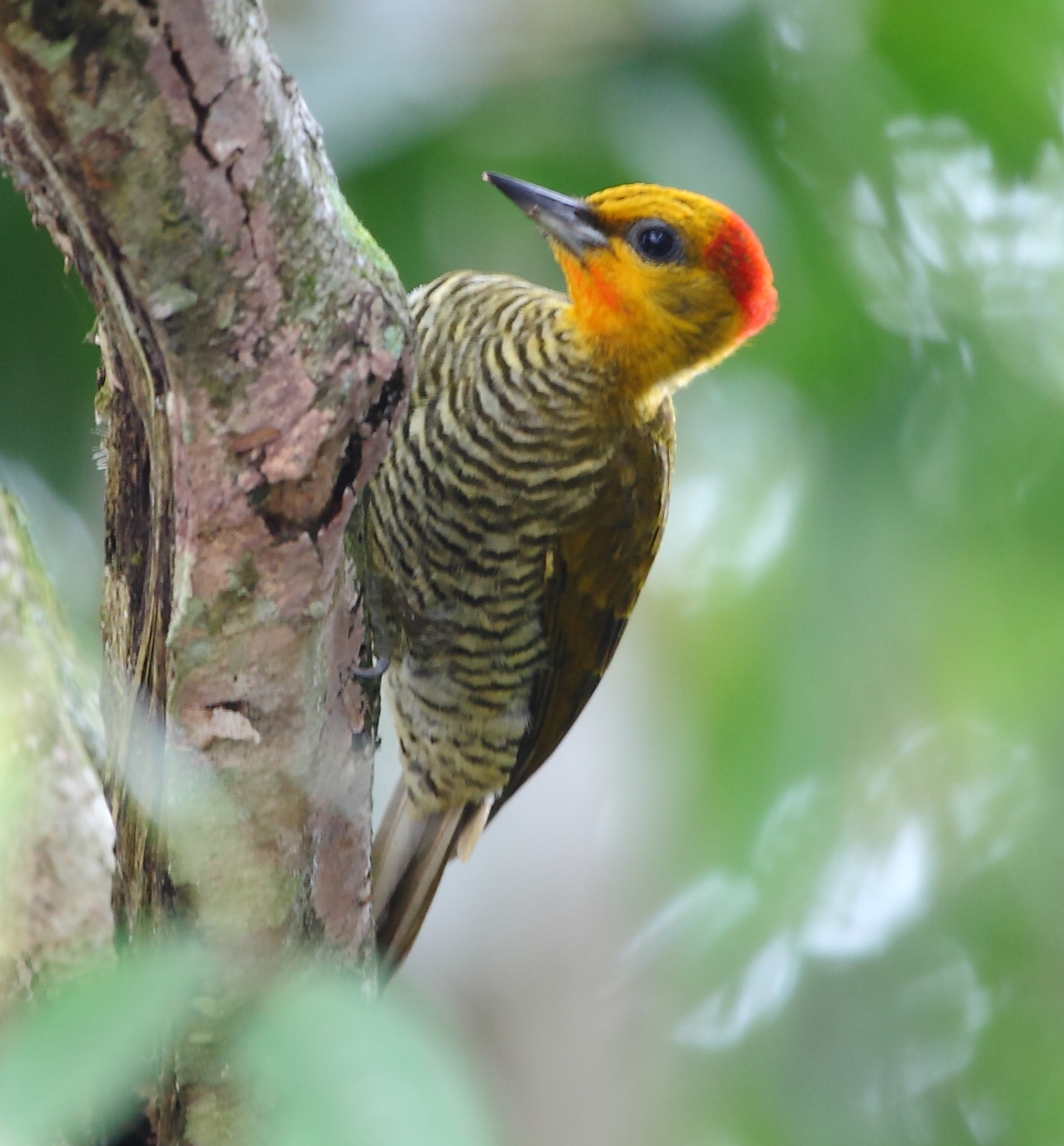 Yellow-throated Woodpecker female at Bertioga - SP - Brazil